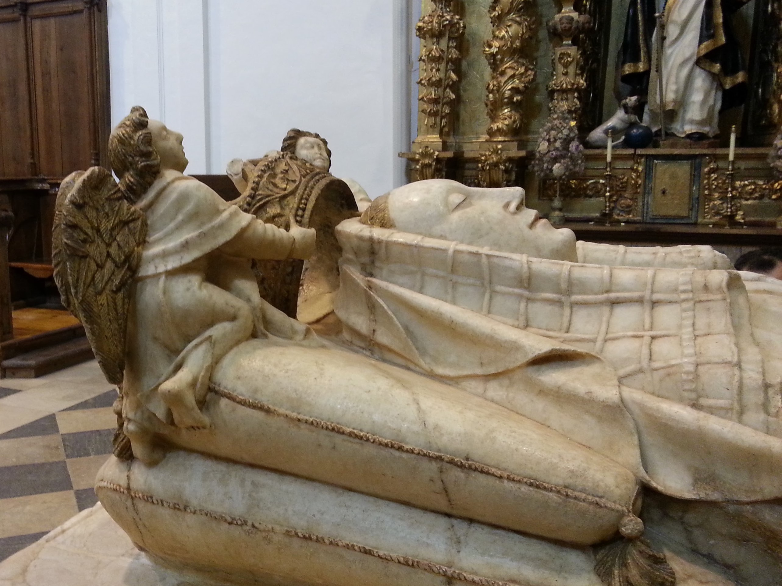 Detail of the tomb of Beatrice of Portugal, queen of Castile, at Monastery of Sancti Spiritus, Toro, Zamora